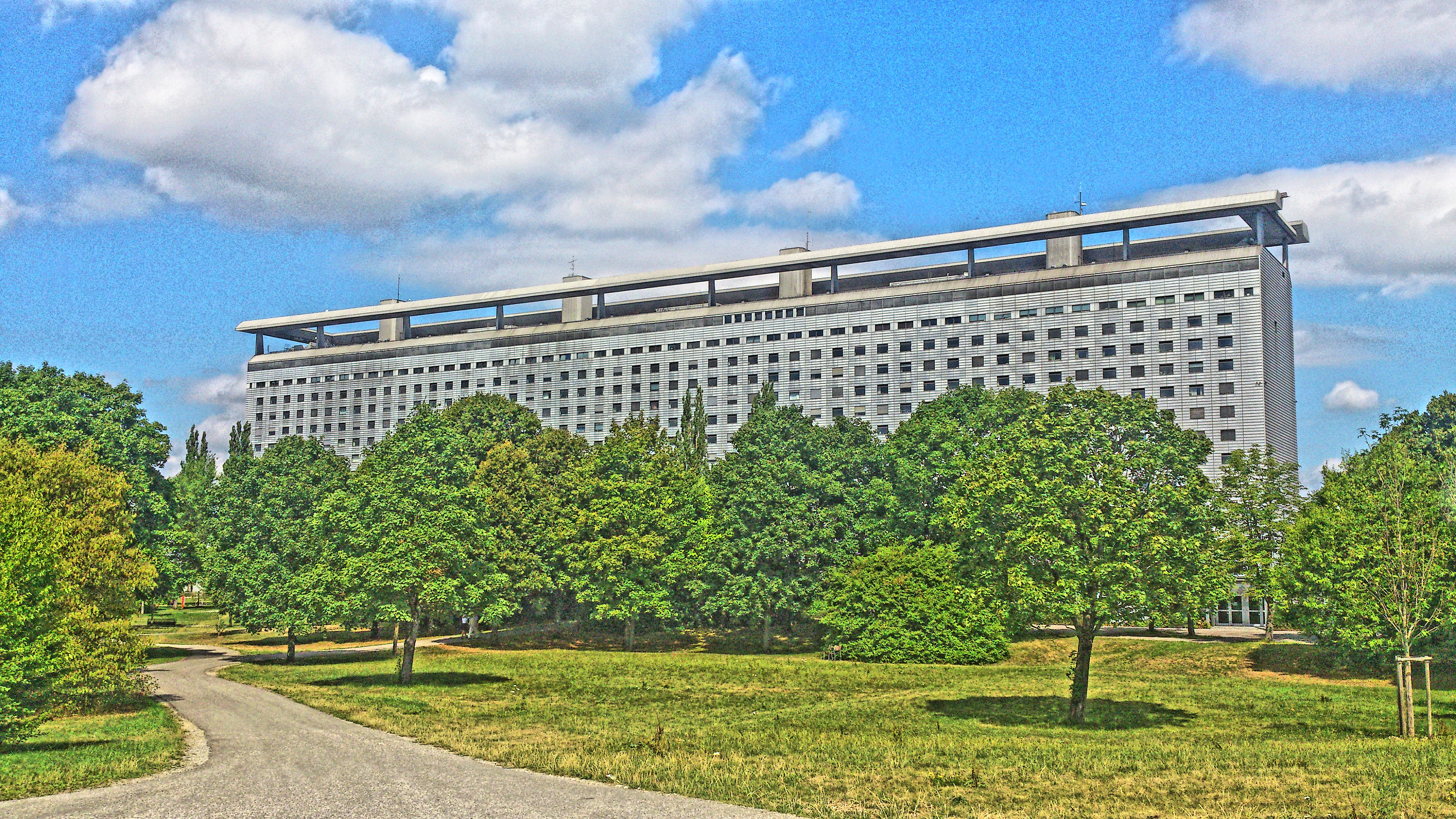 Grosshadern Hospital (Munich)